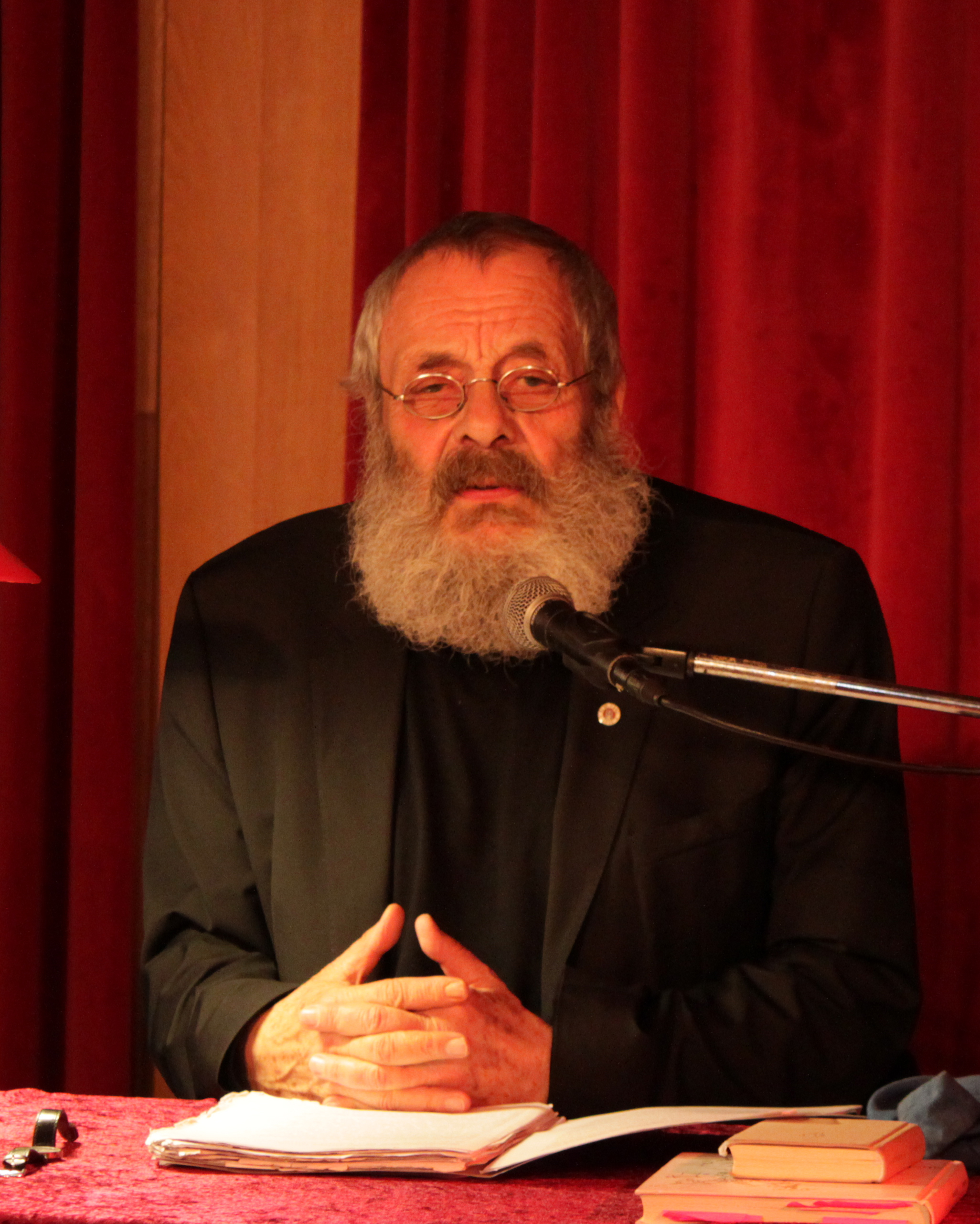 The translator and author Harry Rowohlt during a reading in Brandenburg an der Havel, Germany on May 22nd 2013.